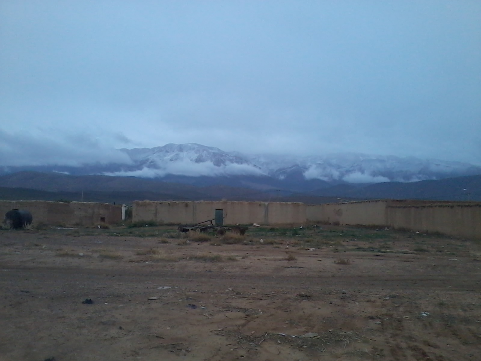 Jabal Al-Ayachi in autumn